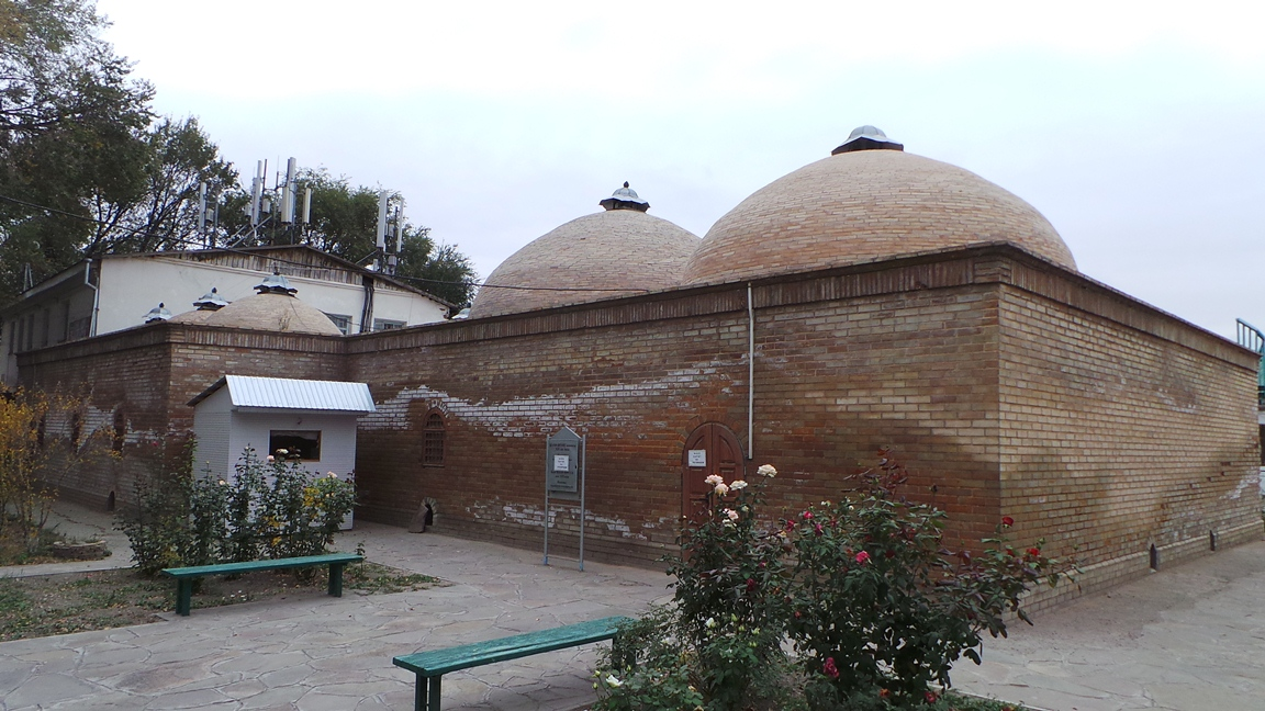 Kali Yunus Terms